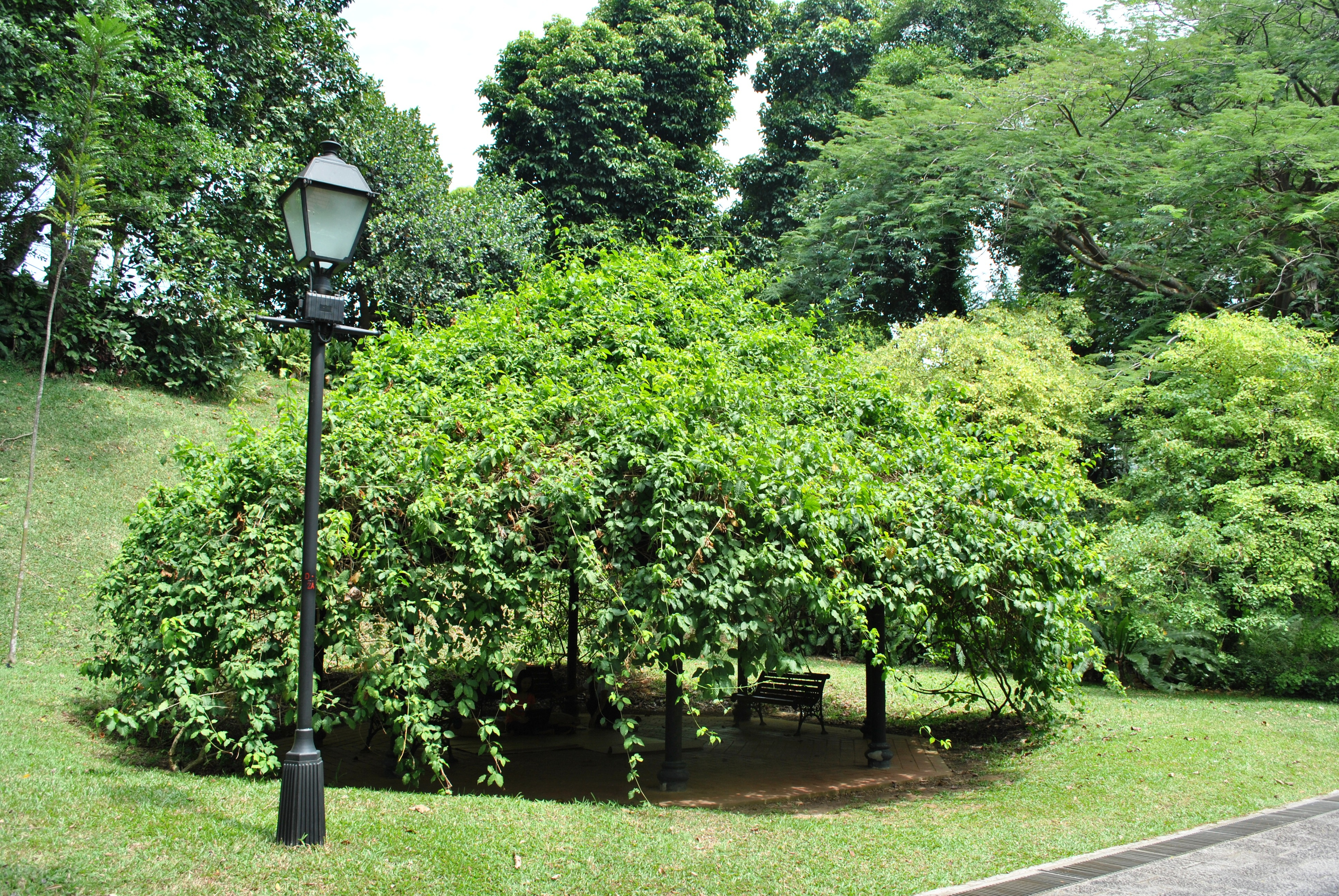 Lionel Vivian Bond